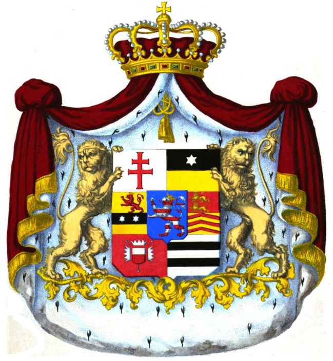 Landgraviate of Hesse-Homburg